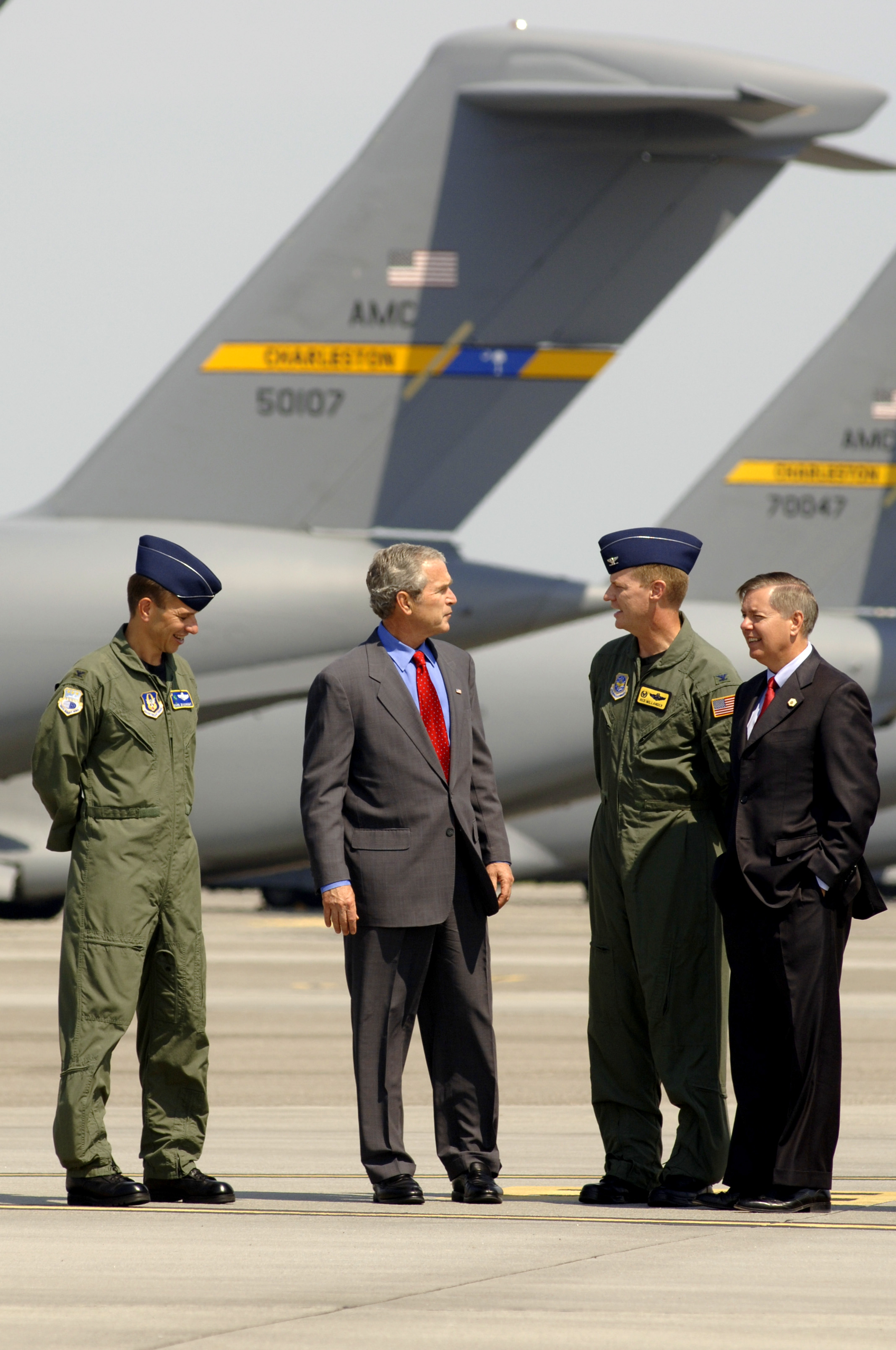 Col. Mark Brauknight, 315th Airlift Wing acting commander, President George Bush, Col. John "Red" Millander, 437th Airlift Wing commander and Sen. Lindsey Graham tour the Charleston Air Force Base flightline today. President Bush visited Charleston AFB, took a tour of a static C-17, ate lunch with Airmen from the base and talked about the Global War on Terrorism. (U.S. Air Force Photo/Airman 1st Class Nicholas Pilch)